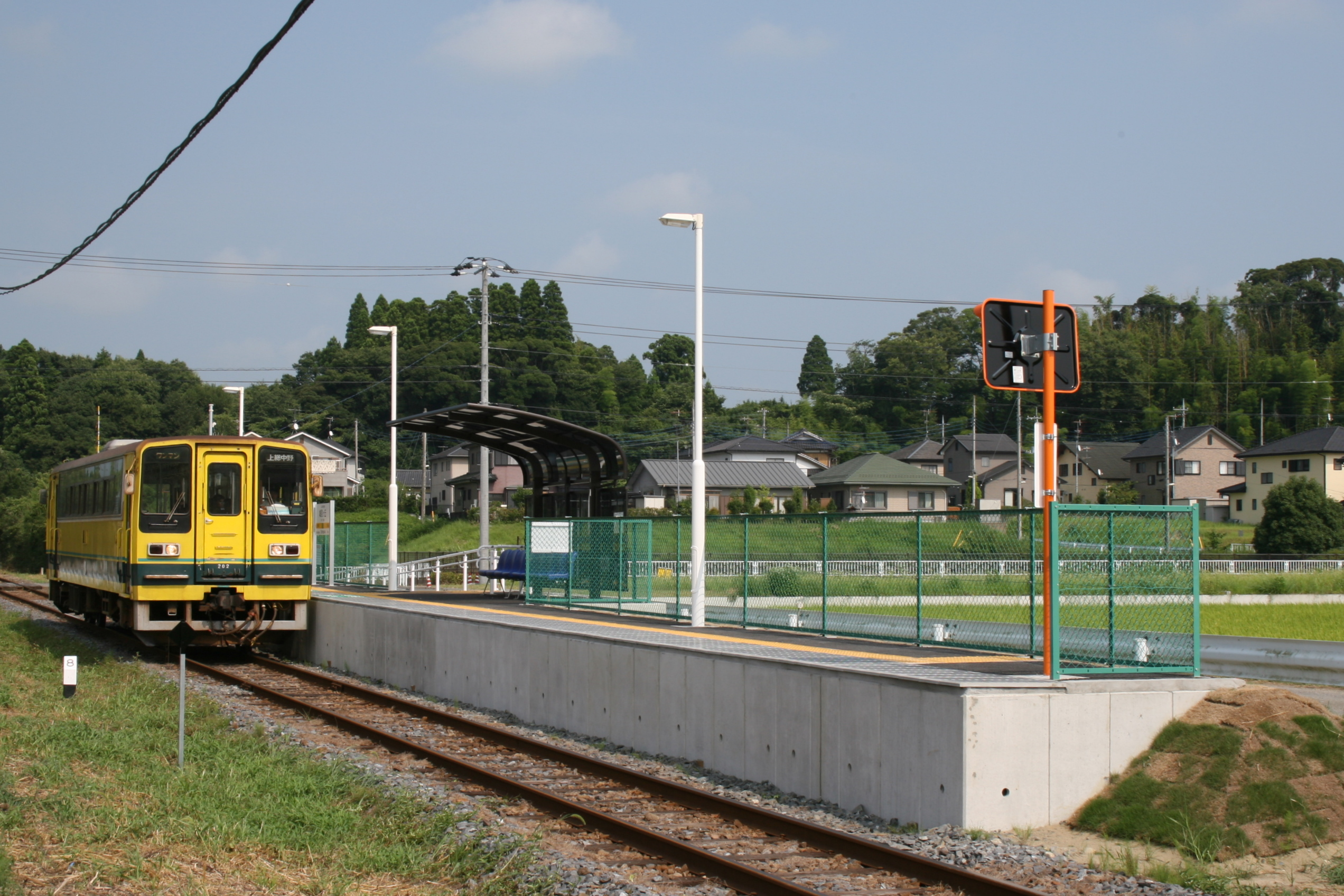 Shiromigaoka Station on the Isumi Railway in Otaki, Chiba. A train bound for Kazusa-Nakano is arriving.